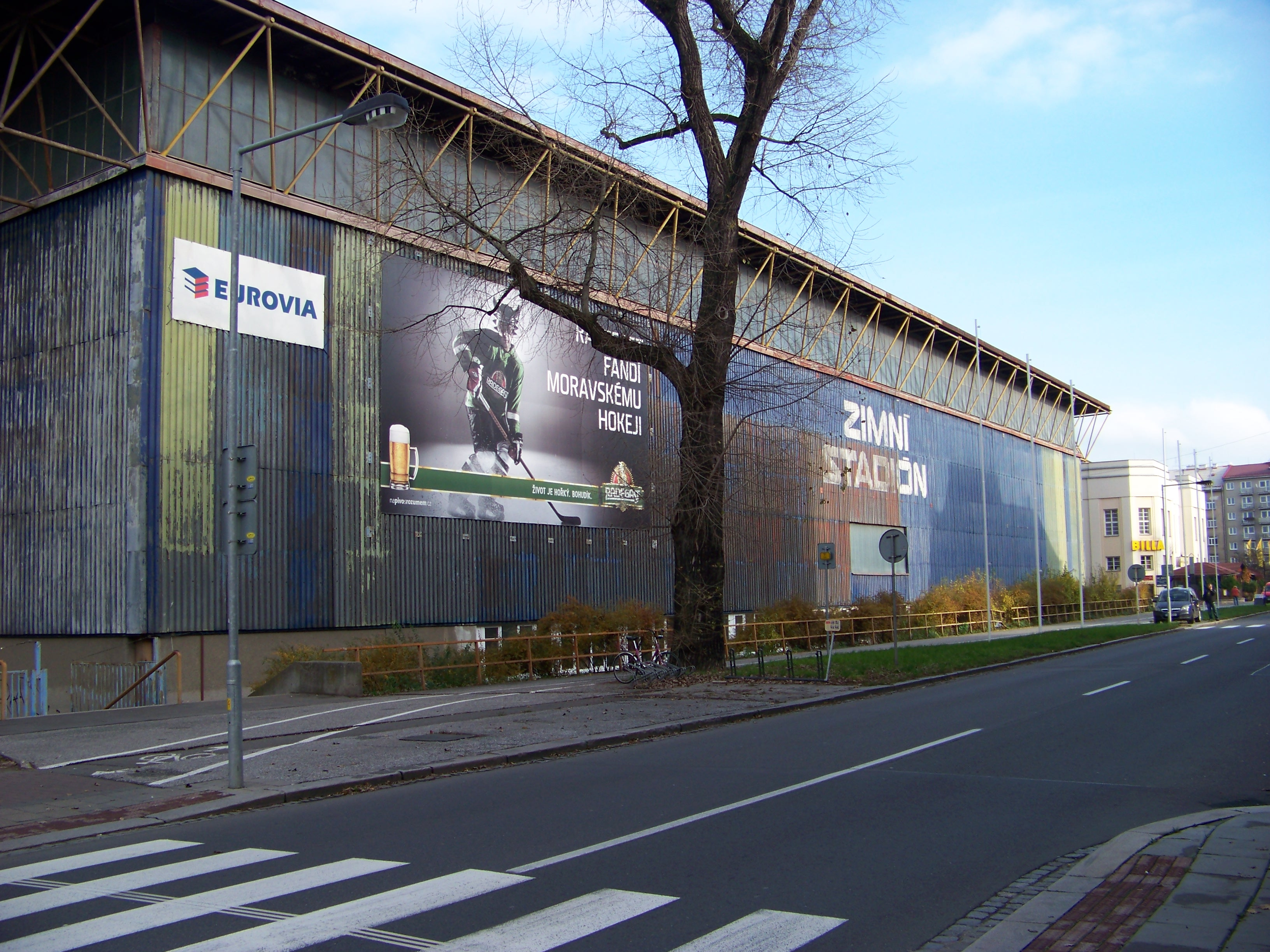 Olomouc-Nová Ulice, Olomouc District, Olomouc Region, Czech Republic. Hynaisova 1091/9a, ice hockey stadium.